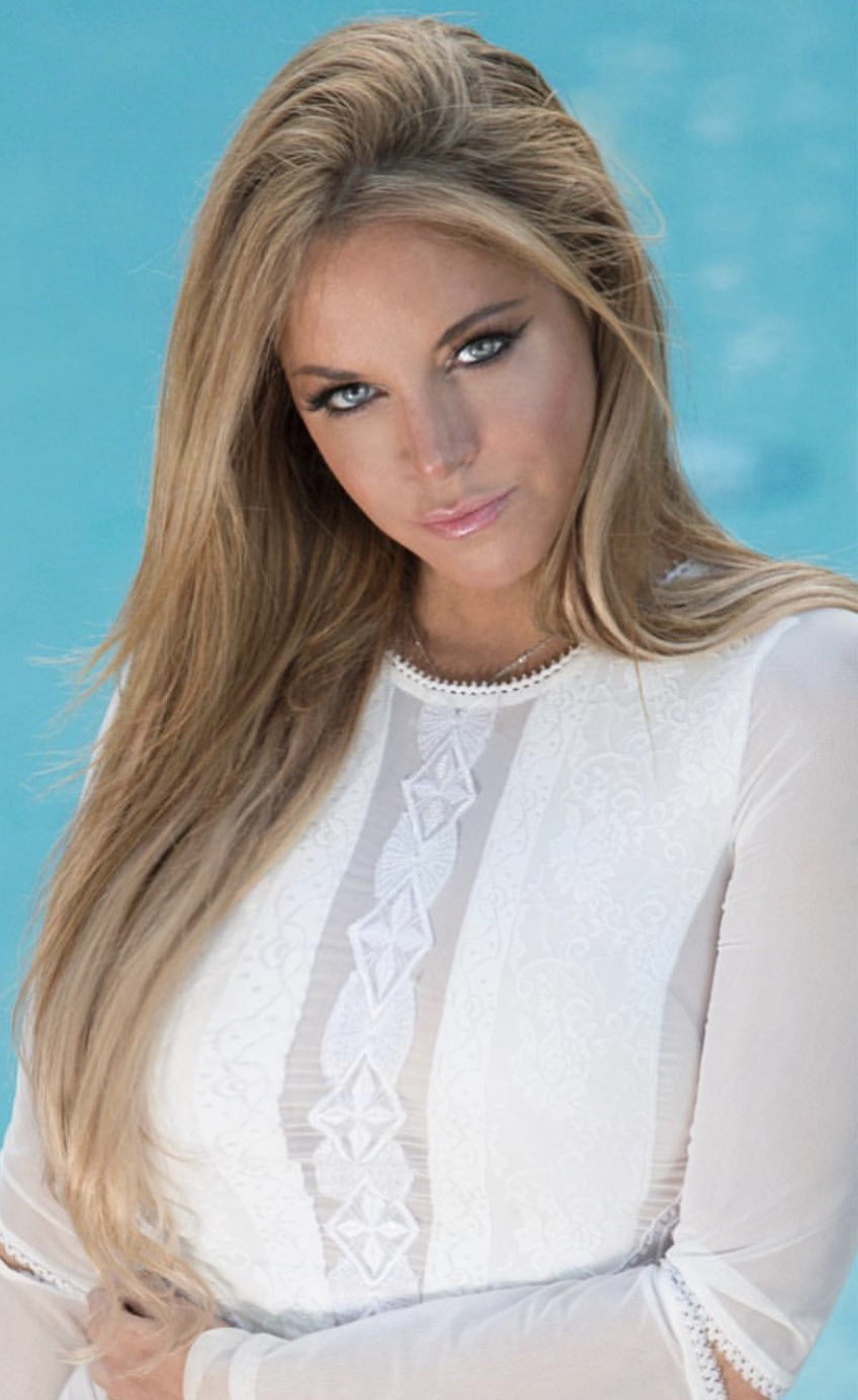 Wendy Starland at One Trieu Yeu Campaign